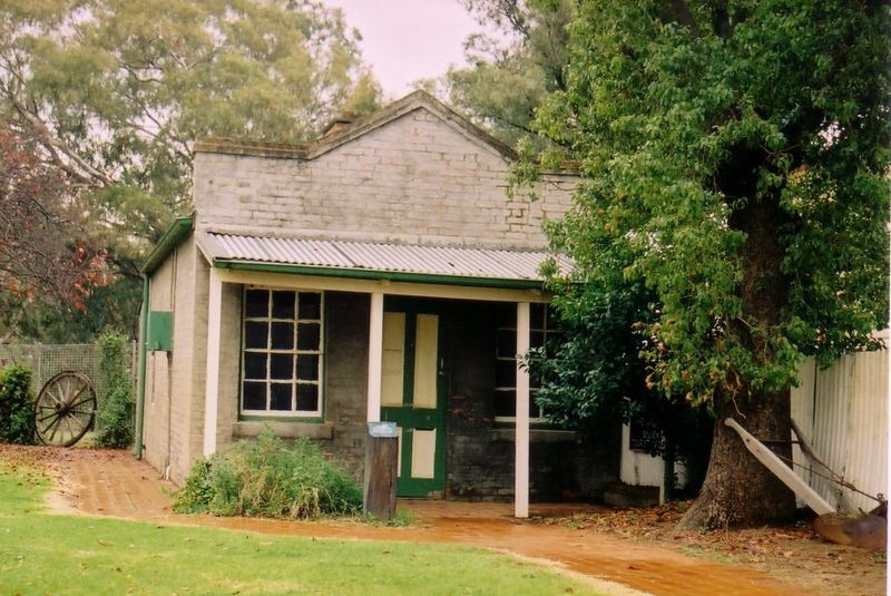 Historic Post office in Jerilderie, New South Wales